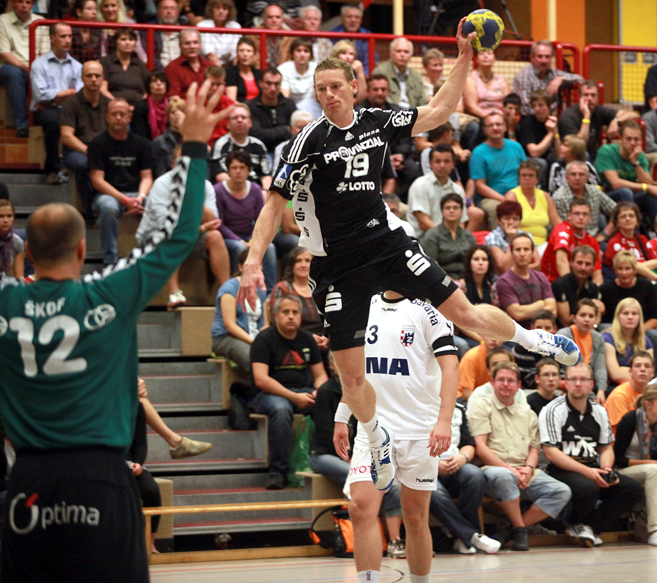 Tobias Reichmann, German handball from THW Kiel, on August 14th, 2010 in Ehingen (Germany), during the Schlecker Cup 2010.